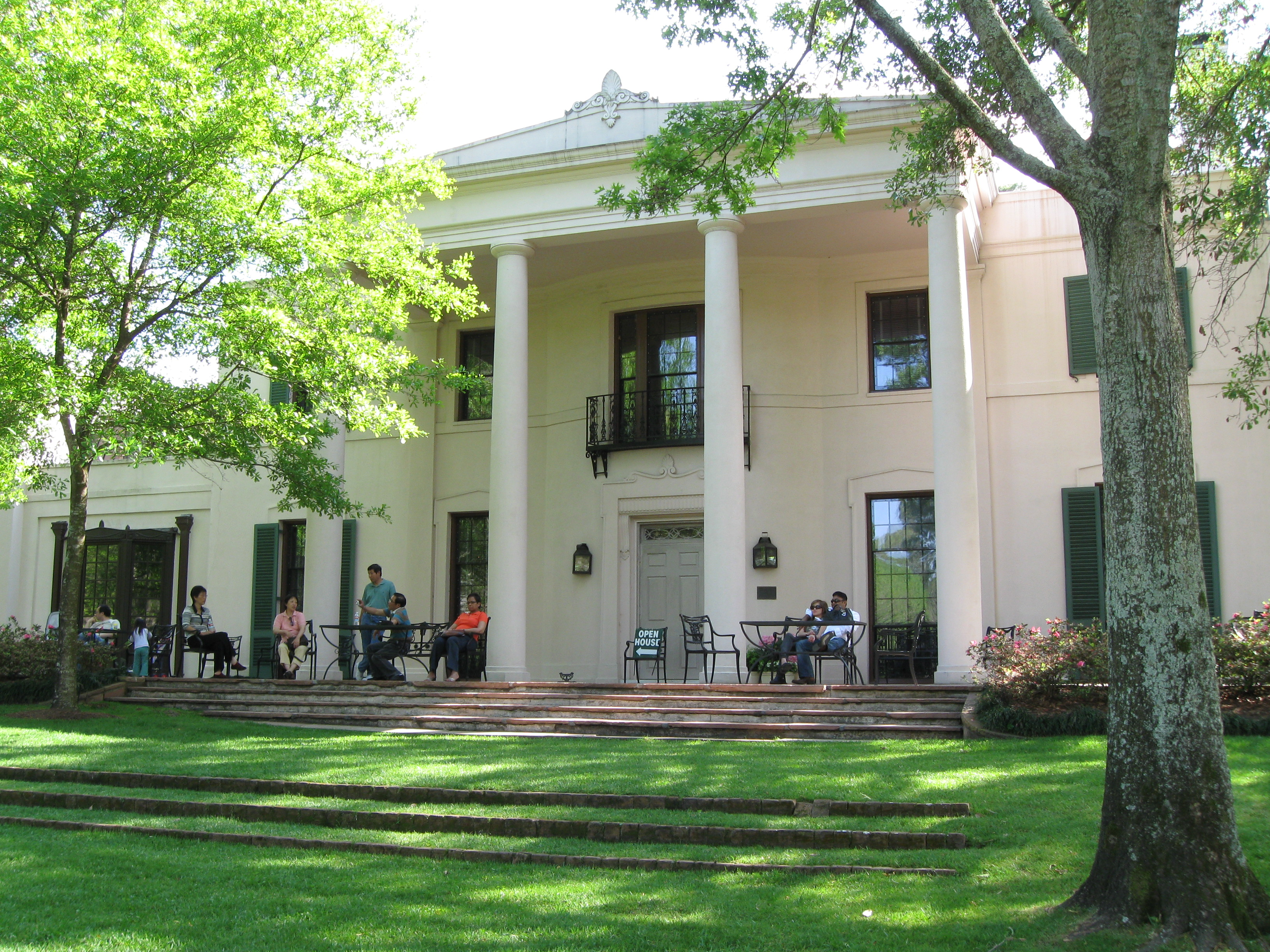 Bayou Bend estate in Houston, Texas.